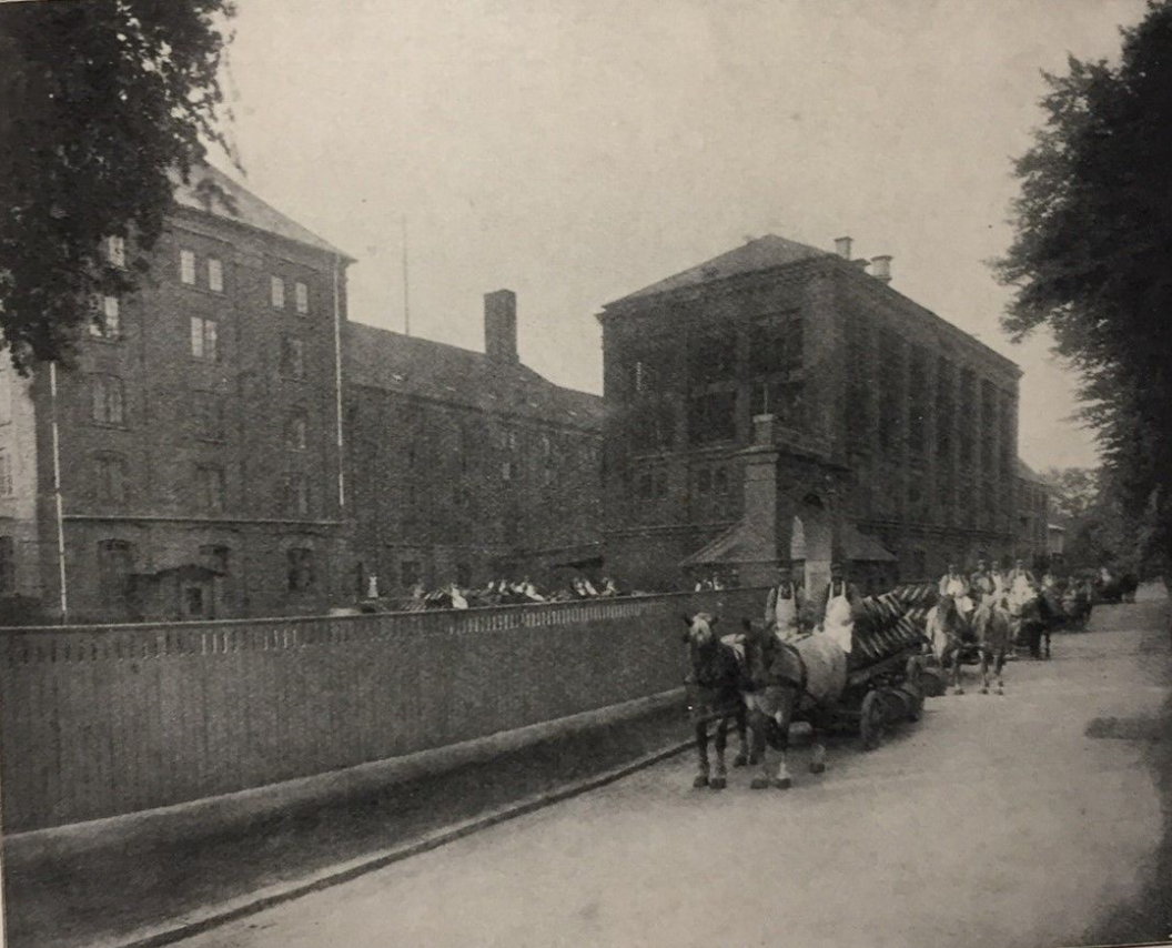 Bryggeriet Rahbeks Allé on Rahbeks Allé in Frederiksberg, Copenhagen, Denmark